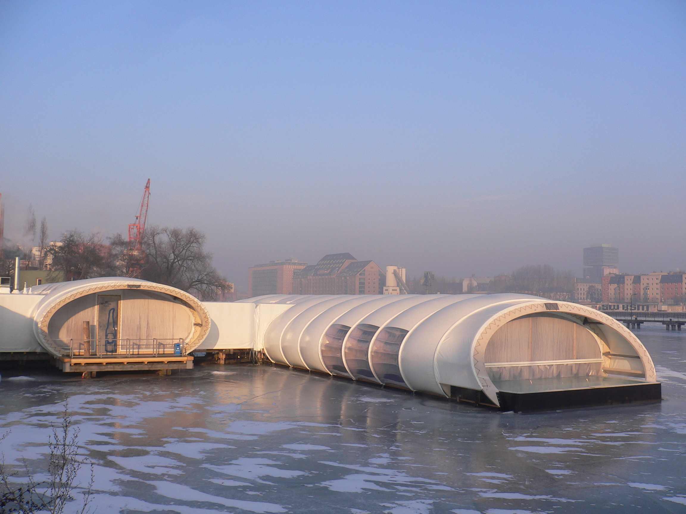 Badeschiff (bath ship?) in Alt-Treptow, Berlin, Germany converted as sauna in frozen river spree